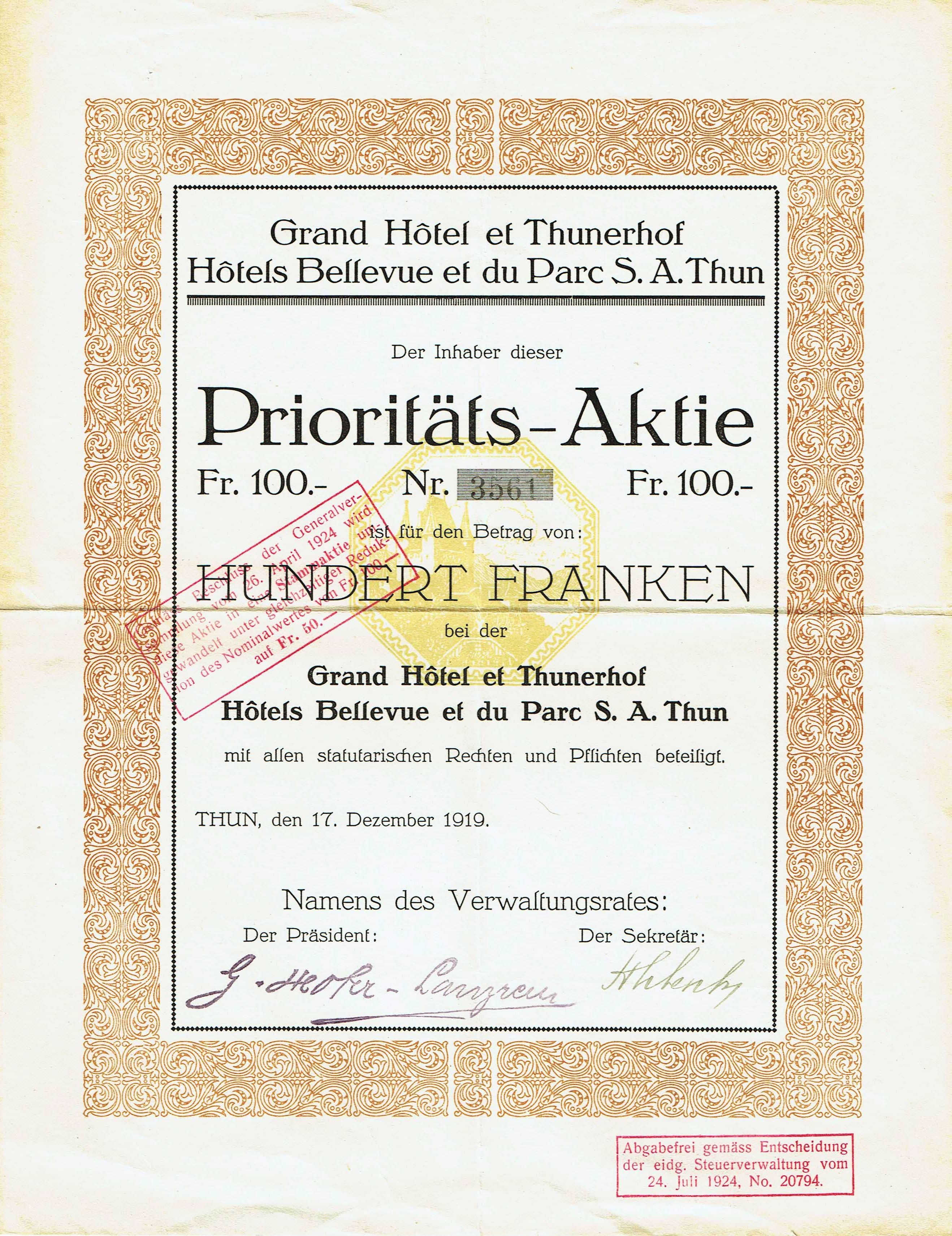 Share of the Grand Hôtel et Thunerhof Hôtels Bellevue et du Parc S. A., issued 17. December 1919